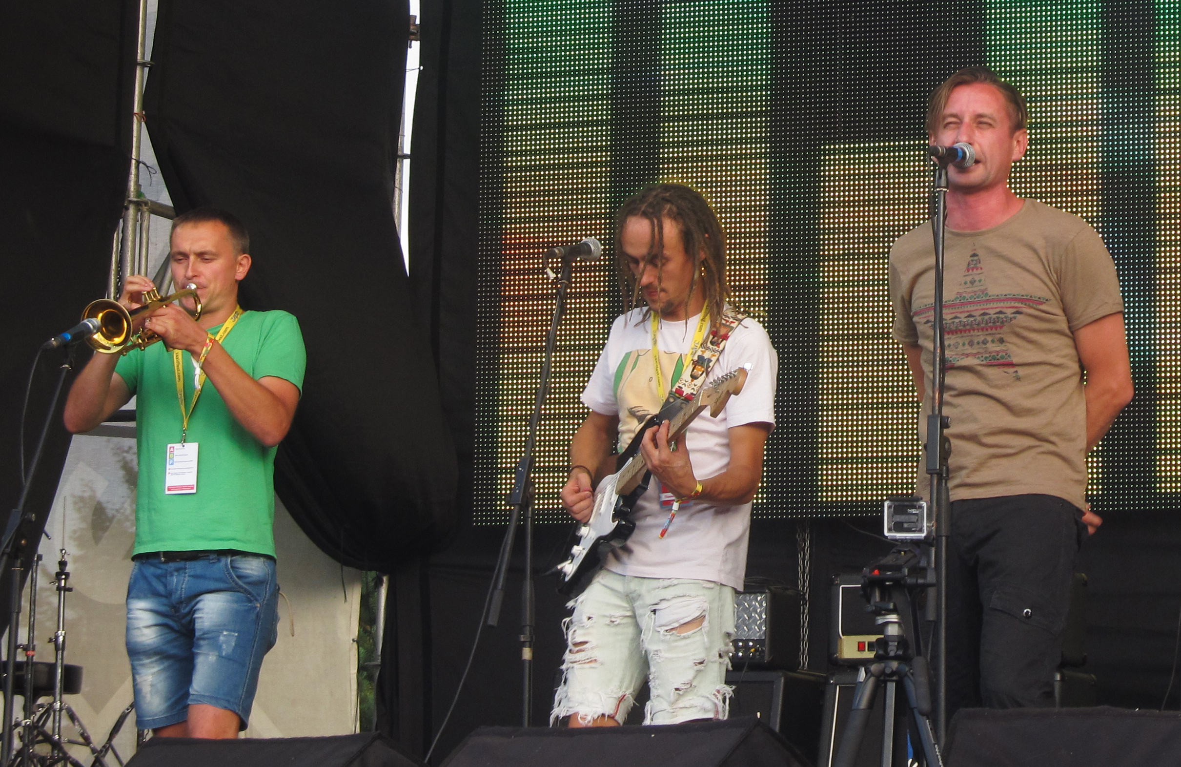 Sergiy Zhadan, and the band Dogs in Space at the event festival in 2013